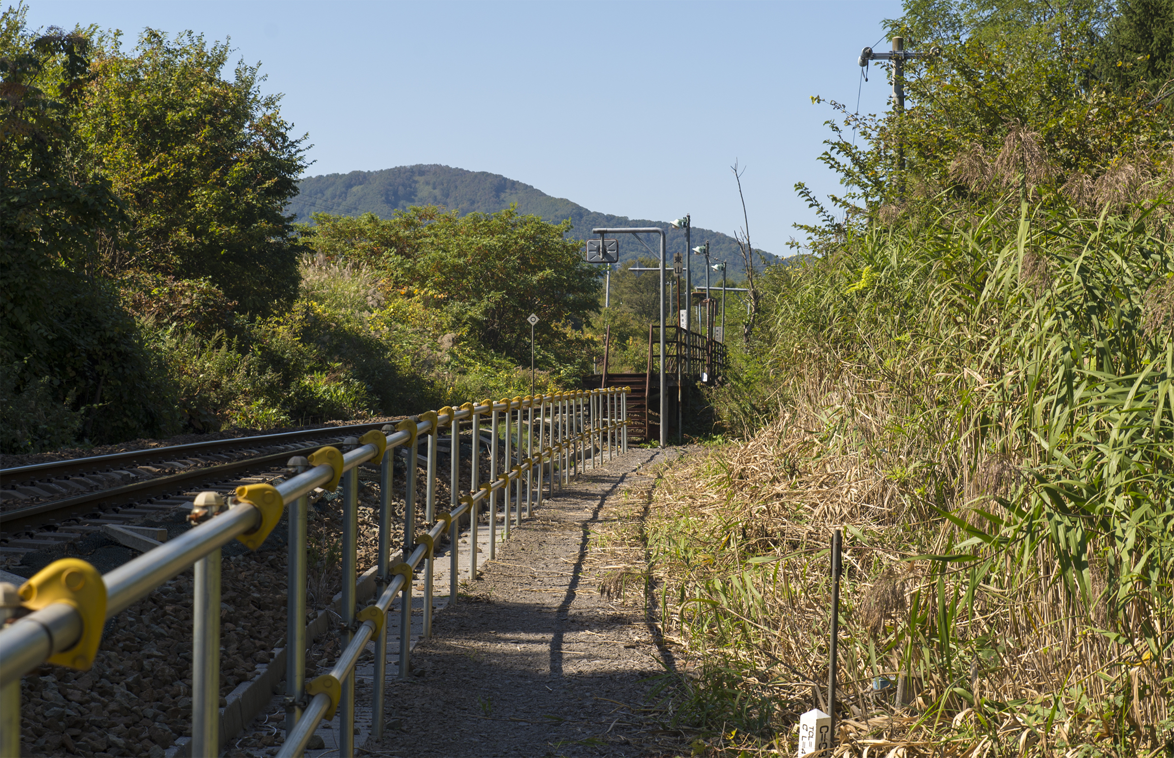 Higashiyama Station on the Hakodate Main Line in Hokkaido, Japan